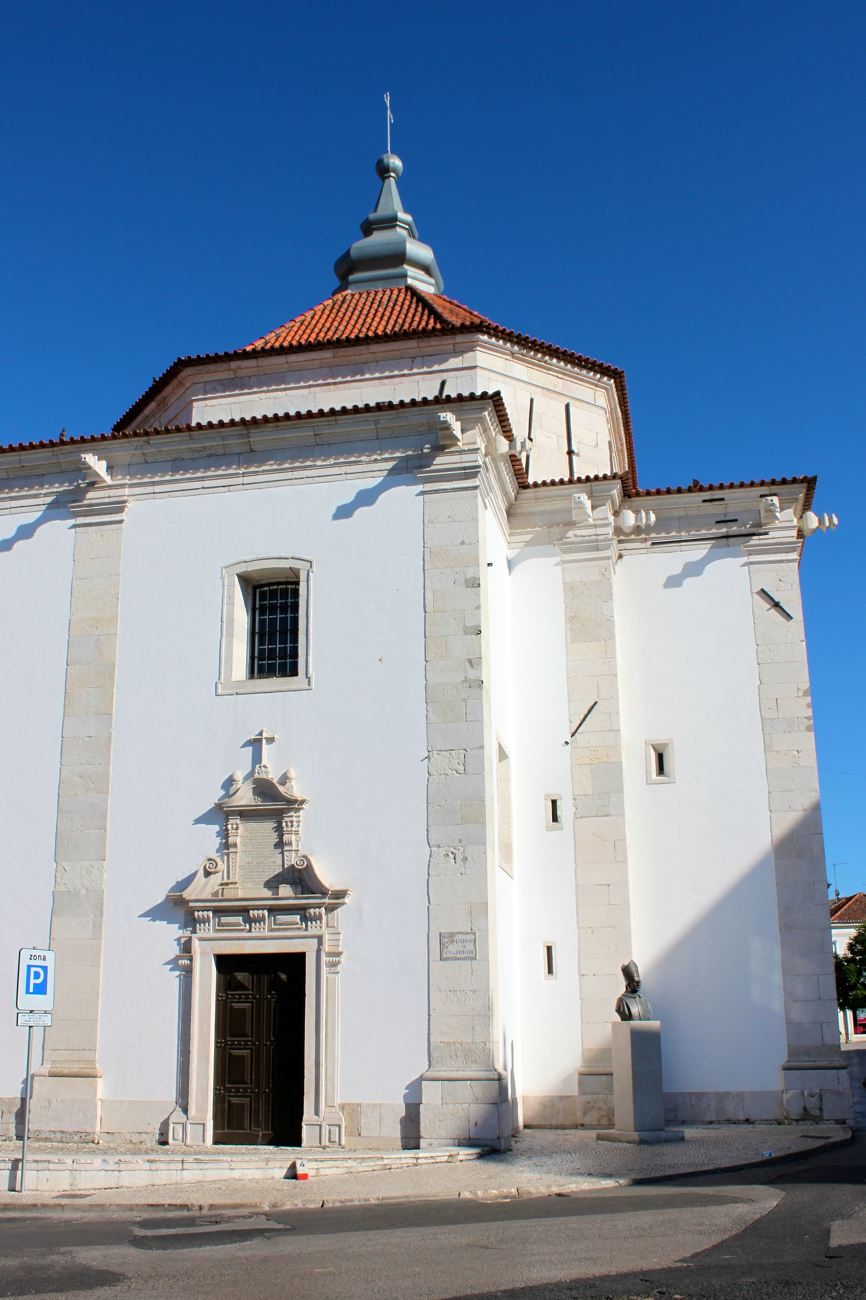 This file was uploaded for Wiki Loves Monuments in Portugal with the unique identifier 74861.